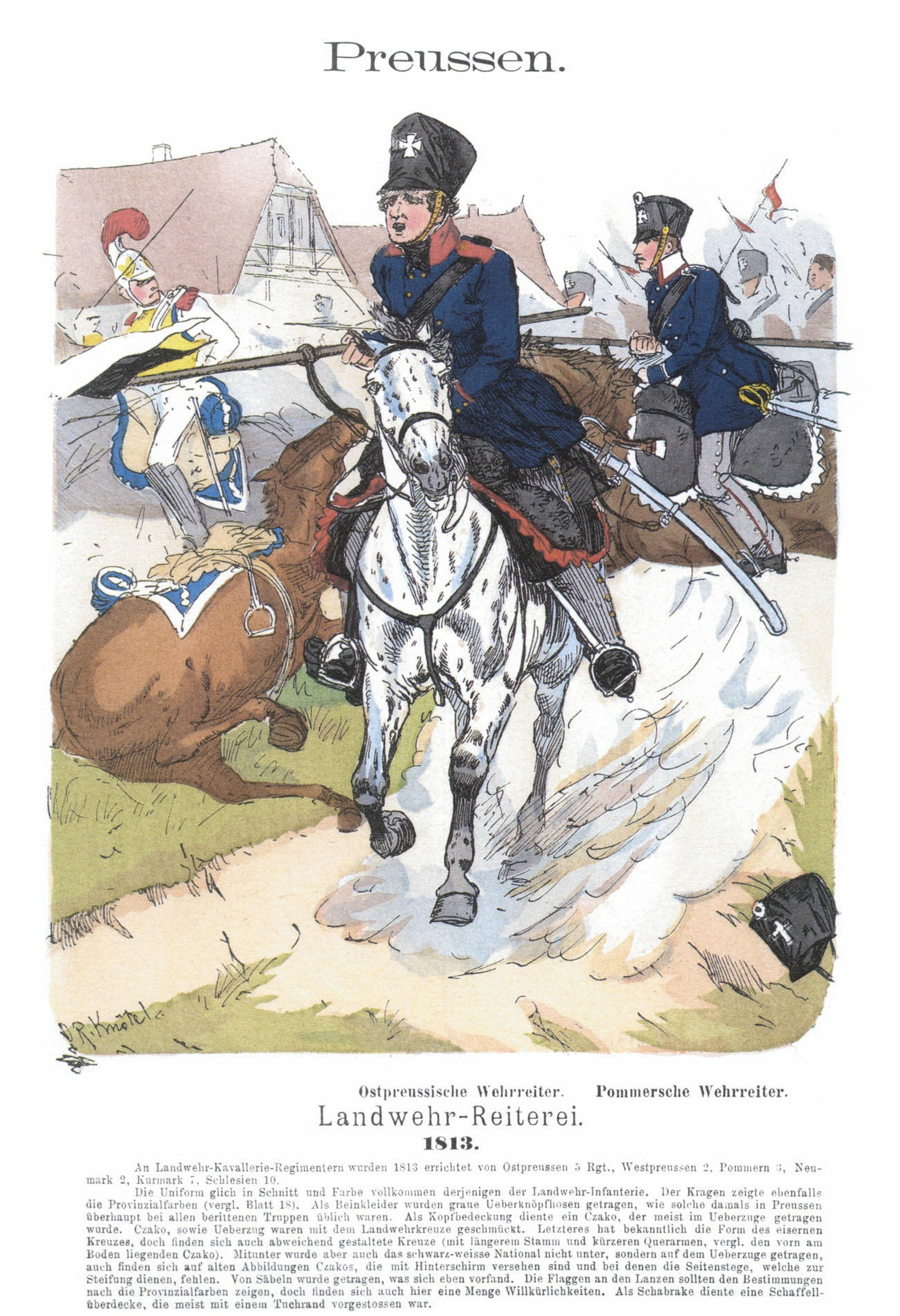 Prussia. Landwehr-cavalry. 1813